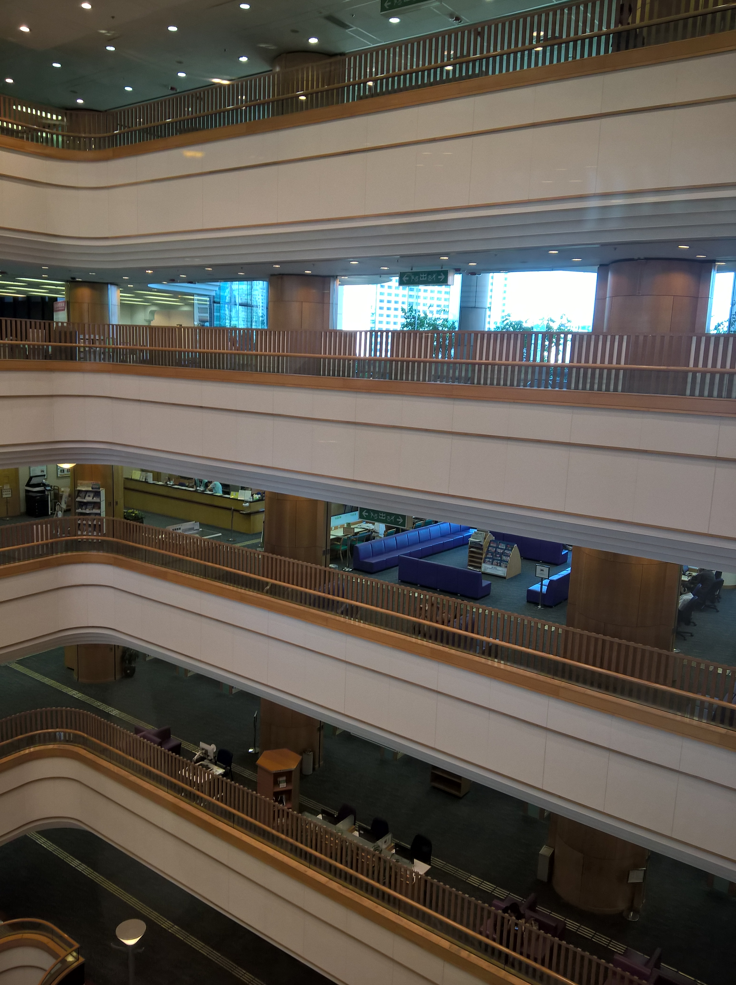 Fences have been installed on 3rd to 6th floors of Hong Kong Central Library.